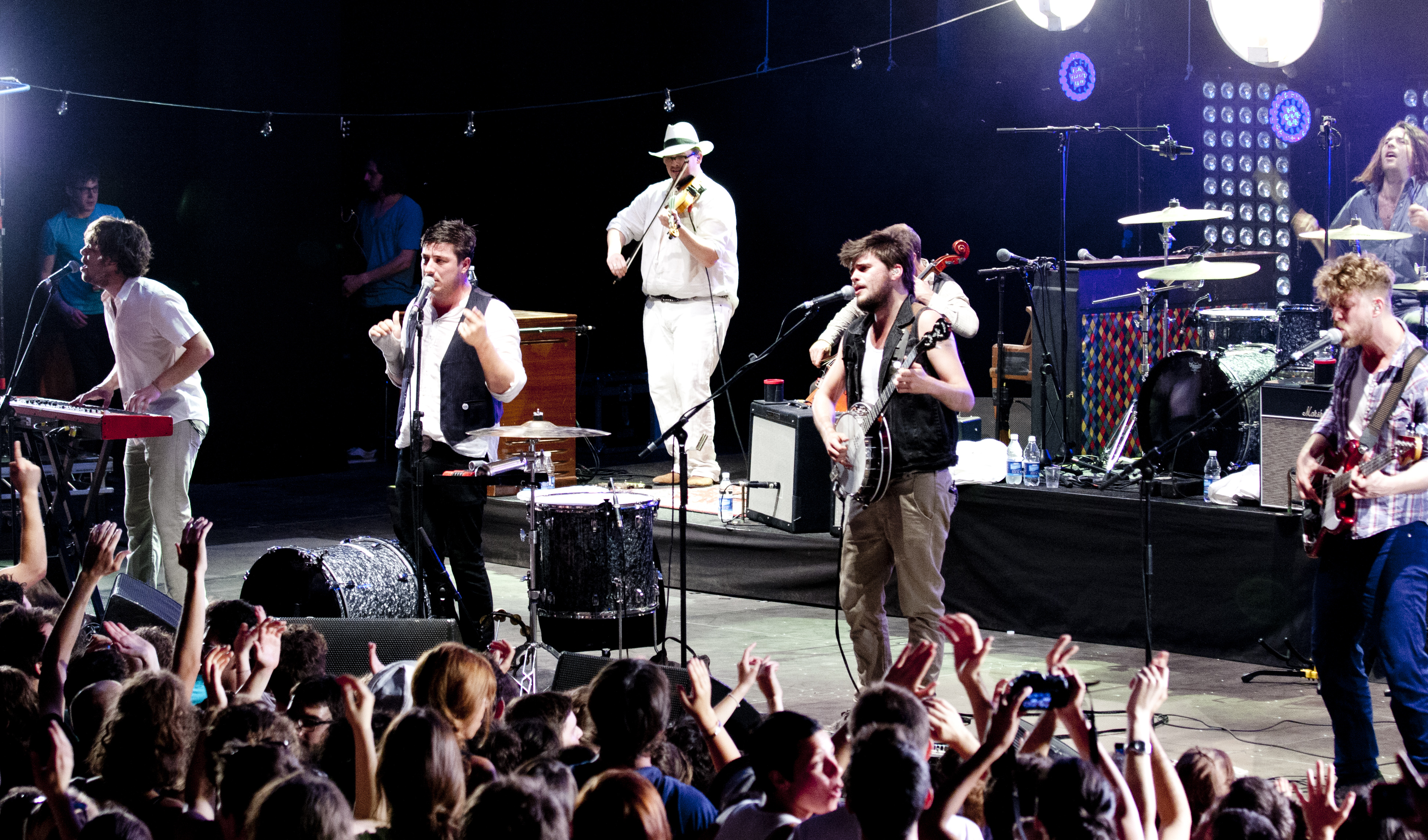 Image of the band Mumford & Sons performing at Teatro Romano in Verona in 2012. To be used at Mumford & Sons. Image by Andrea Sartorati. Original available here